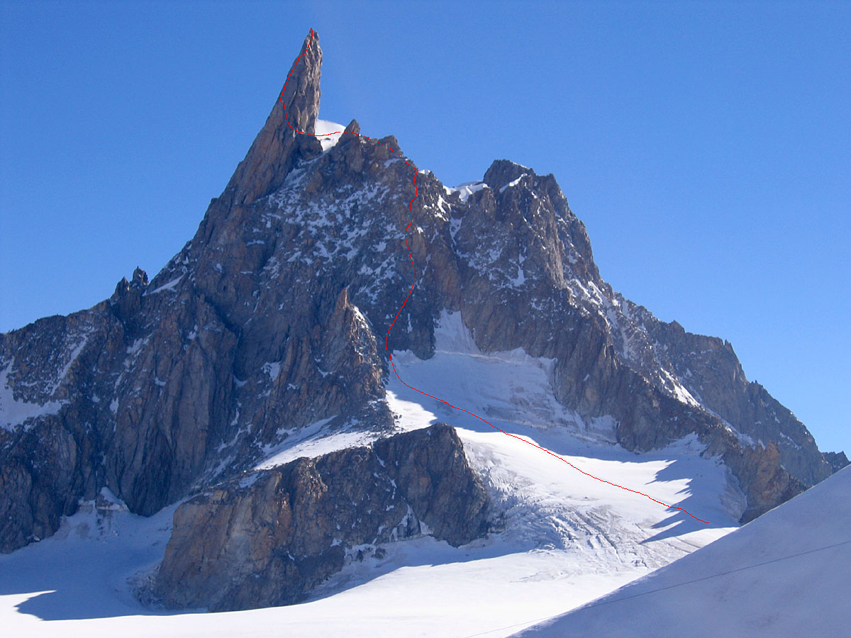 Dent du Géant - Normal route